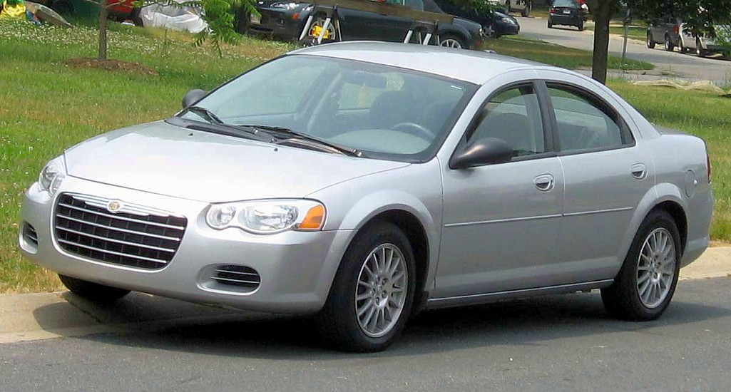 2004-2006 Chrysler Sebring photographed in USA.